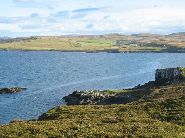 Dun na h-Airde. Small headland on the east side of Greshornish Point with view over Loch Greshornish towards Fanks.